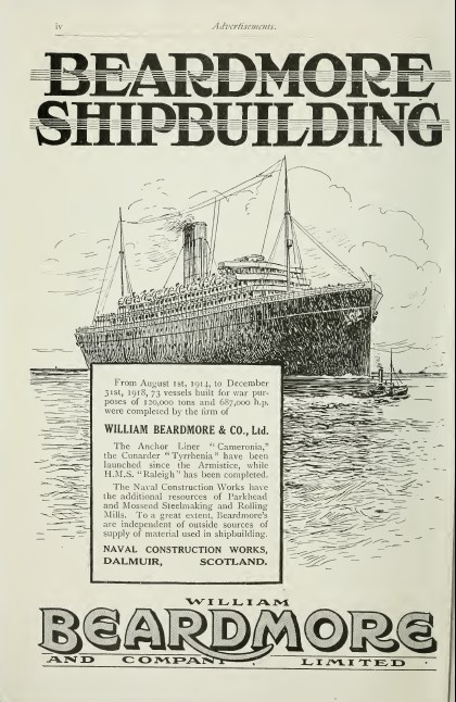 Advertisement for Beardmore Shipbuilding in Brassey's Naval Annual 1923.